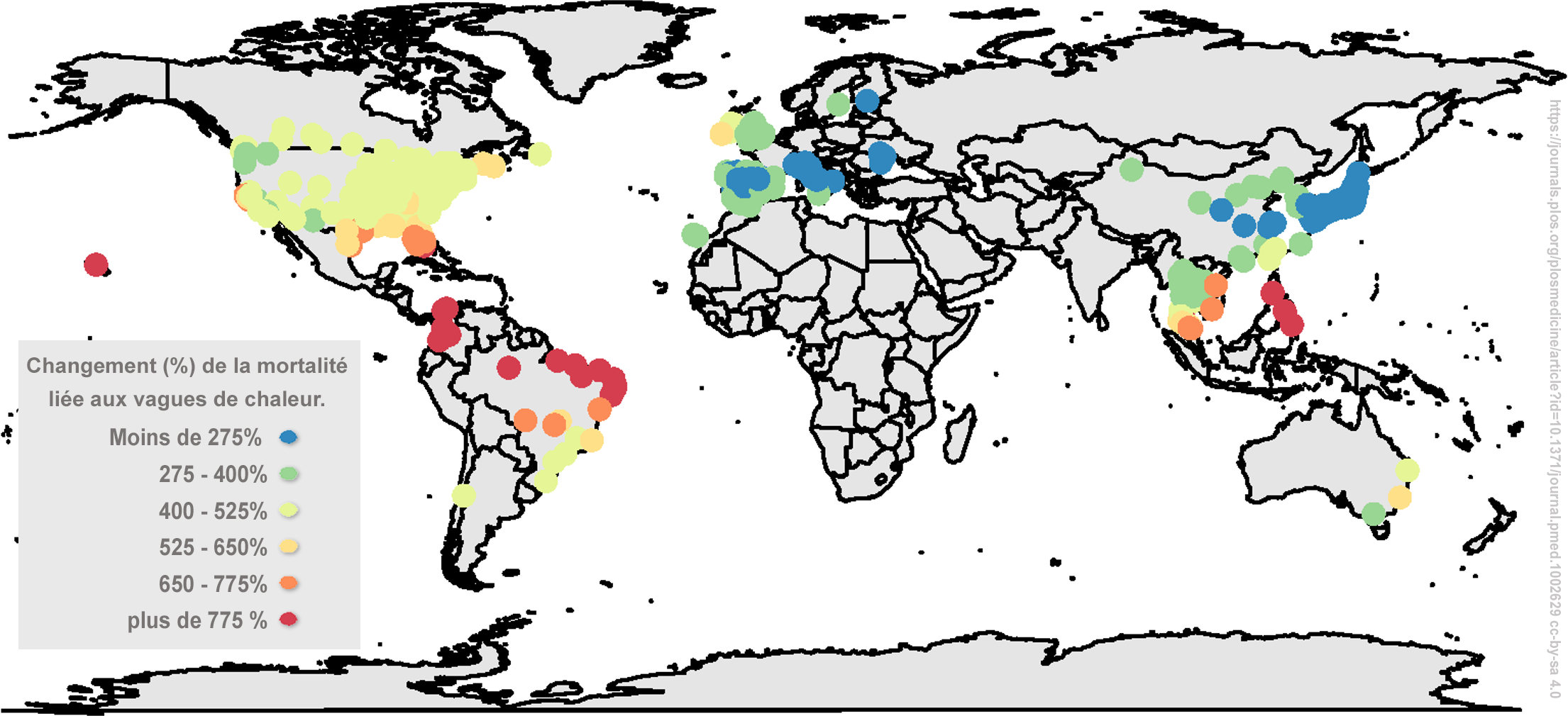 Locations of communities and mean percent change of heatwave-related excess deaths in 2031–2080 comparing to 1971–2020, under RCP8.5 scenario and high-variant population scenario, with assumption of nonadaptation. (RCP, Representative Concentration Pathway). note : The mortality from extreme heat is larger than the mortality from hurricanes, lightning, tornadoes, floods, and earthquakes together"[2] See also 2018 heat wave.